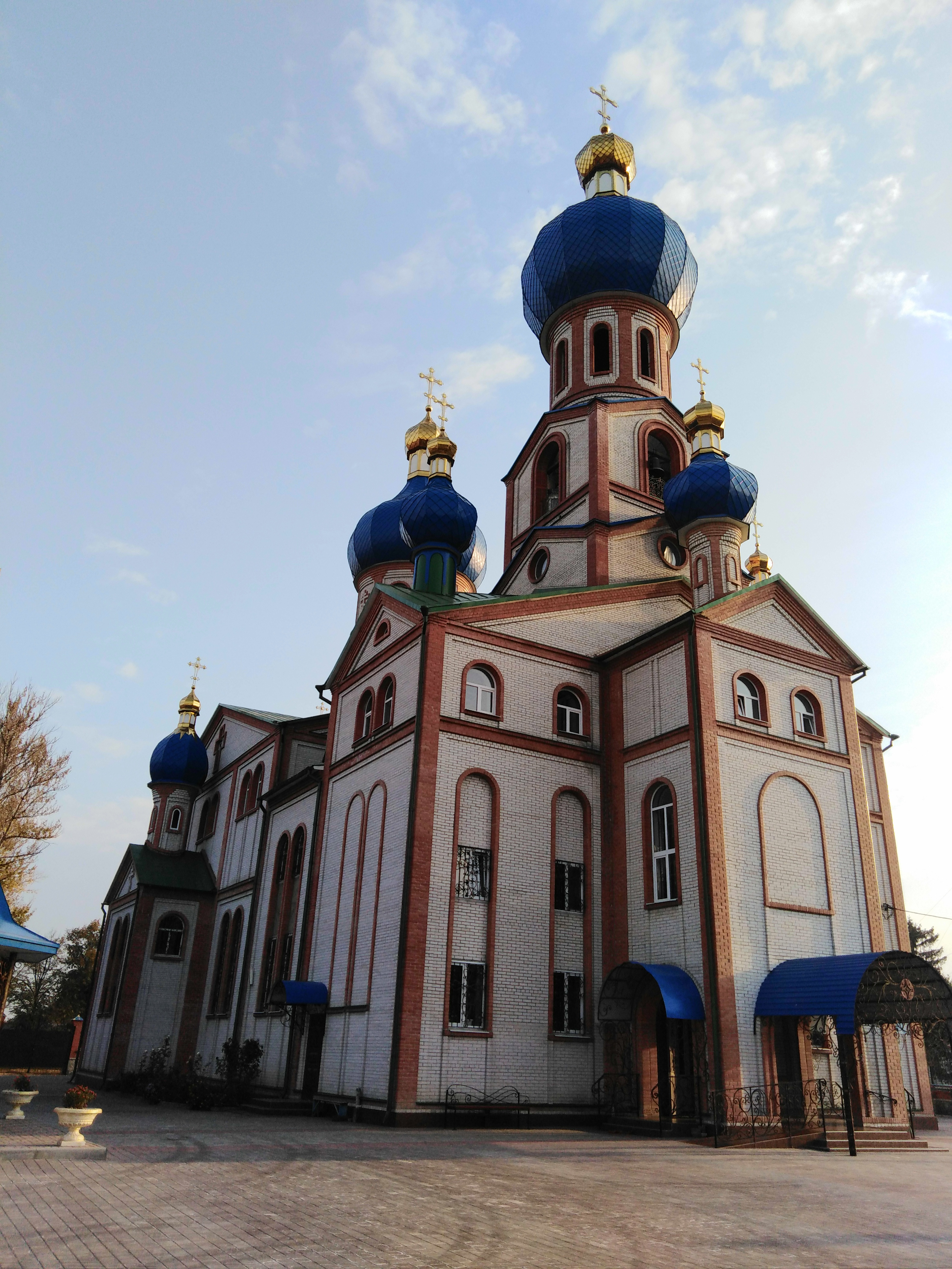 Wikiworkshop in Pervomaiskyi 2018-10-20.Kharkiv obl. Pervomaiskyi. Church in honor of the icon of Our Lady of Kazan